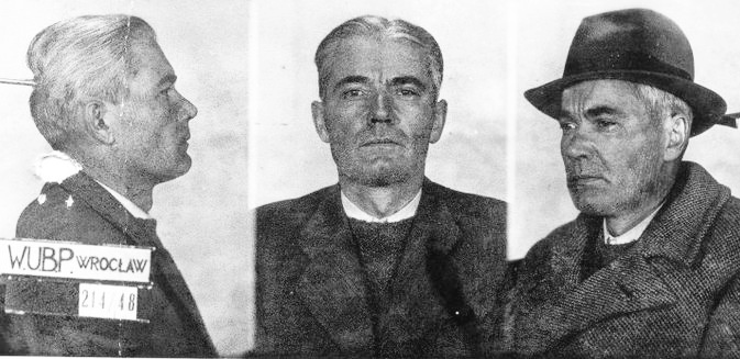 Anatol Sawicki (1897-1948) - Colonel of the Polish Army, arrested by communist political police (Ministry of Public Security), during interrogation beaten to death